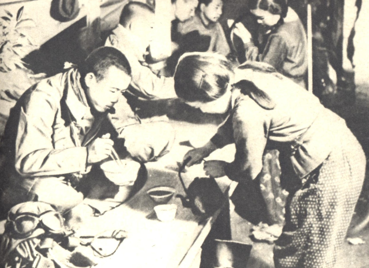 kamikaze pilot who gets tea from a school girl before a sortie